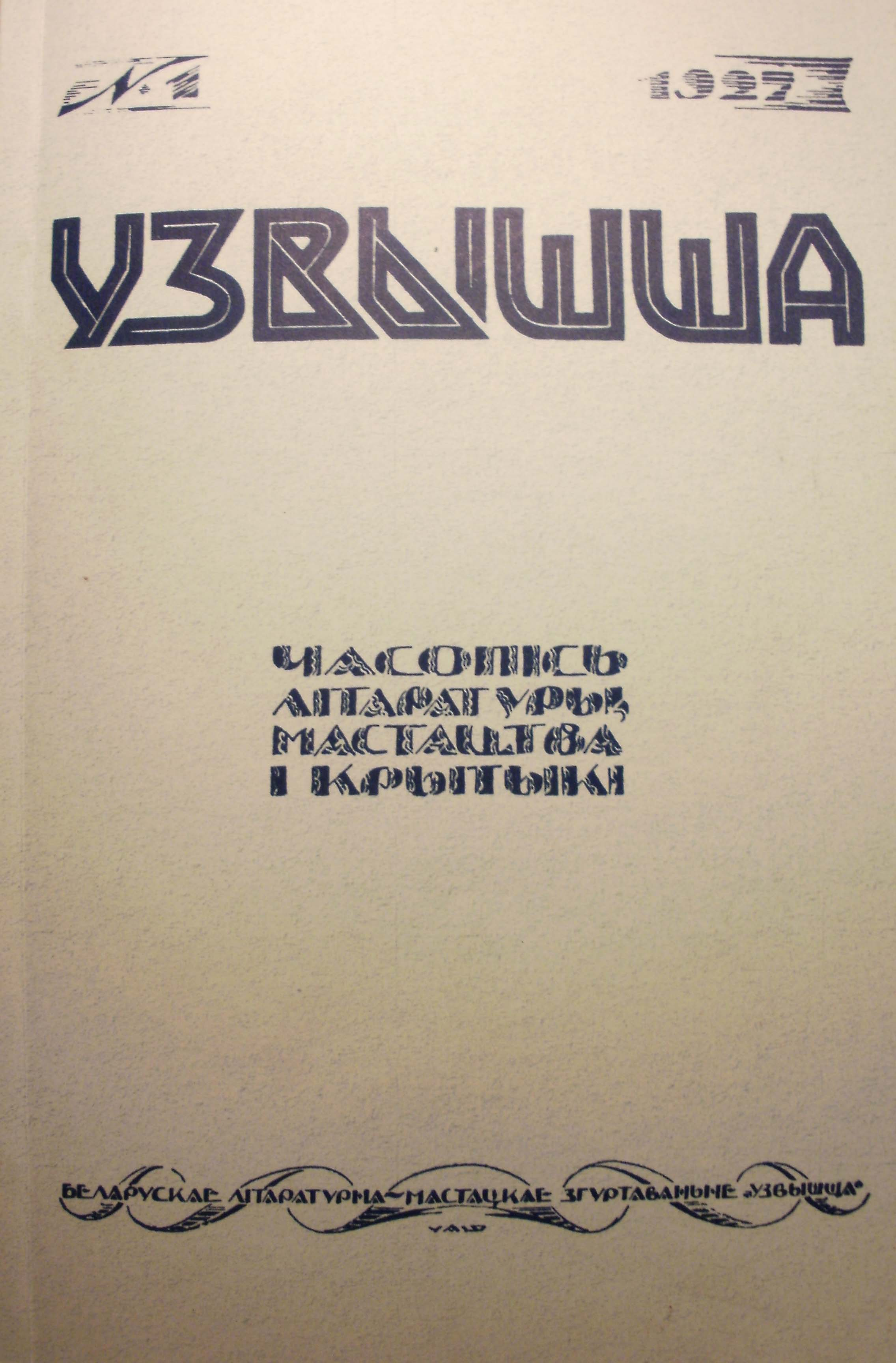 Часопiс Узвышша #1